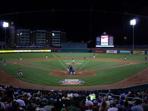 Photo by Craig Michaud. This is Stadium in Manchester, New Hampshire. Home of the New Hampshire Fisher cats. 22:54, 10 February 2009 . . Thebudman623 . . 500×375 (124 KB)